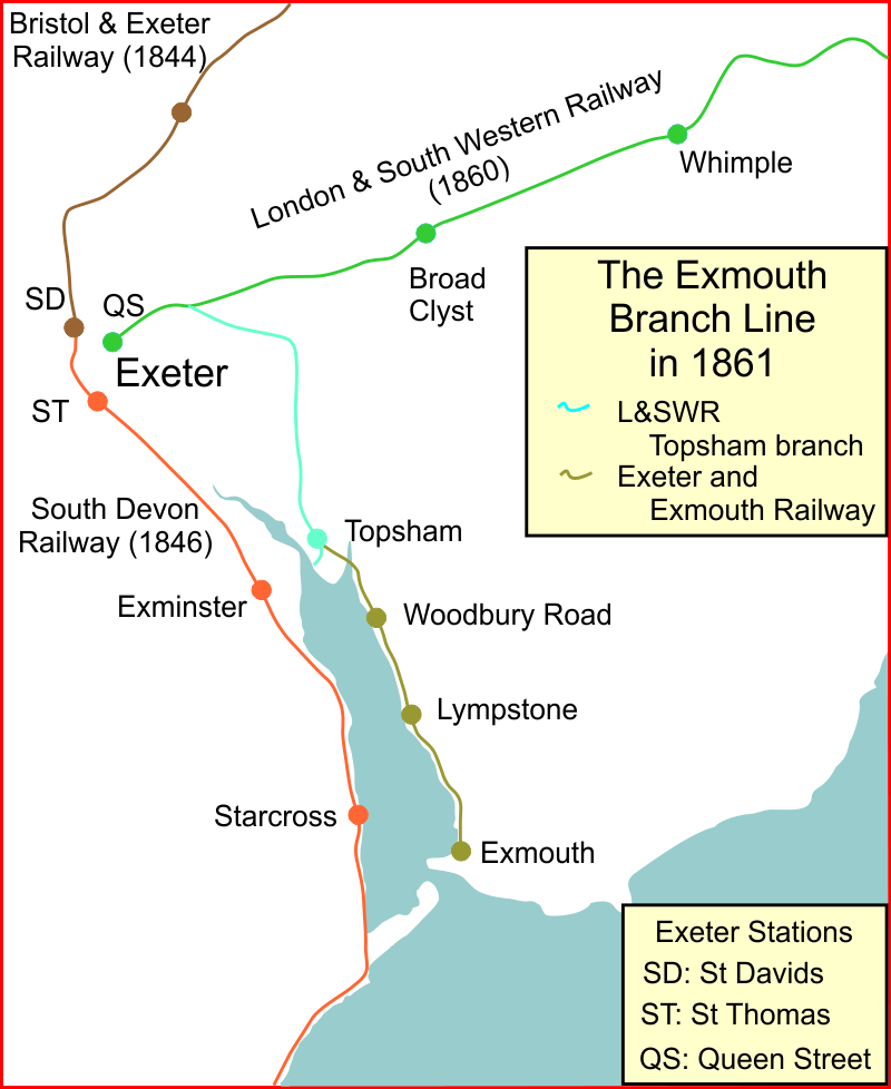 DIagram of the Exmouth (UK) branch railway lines in 1861